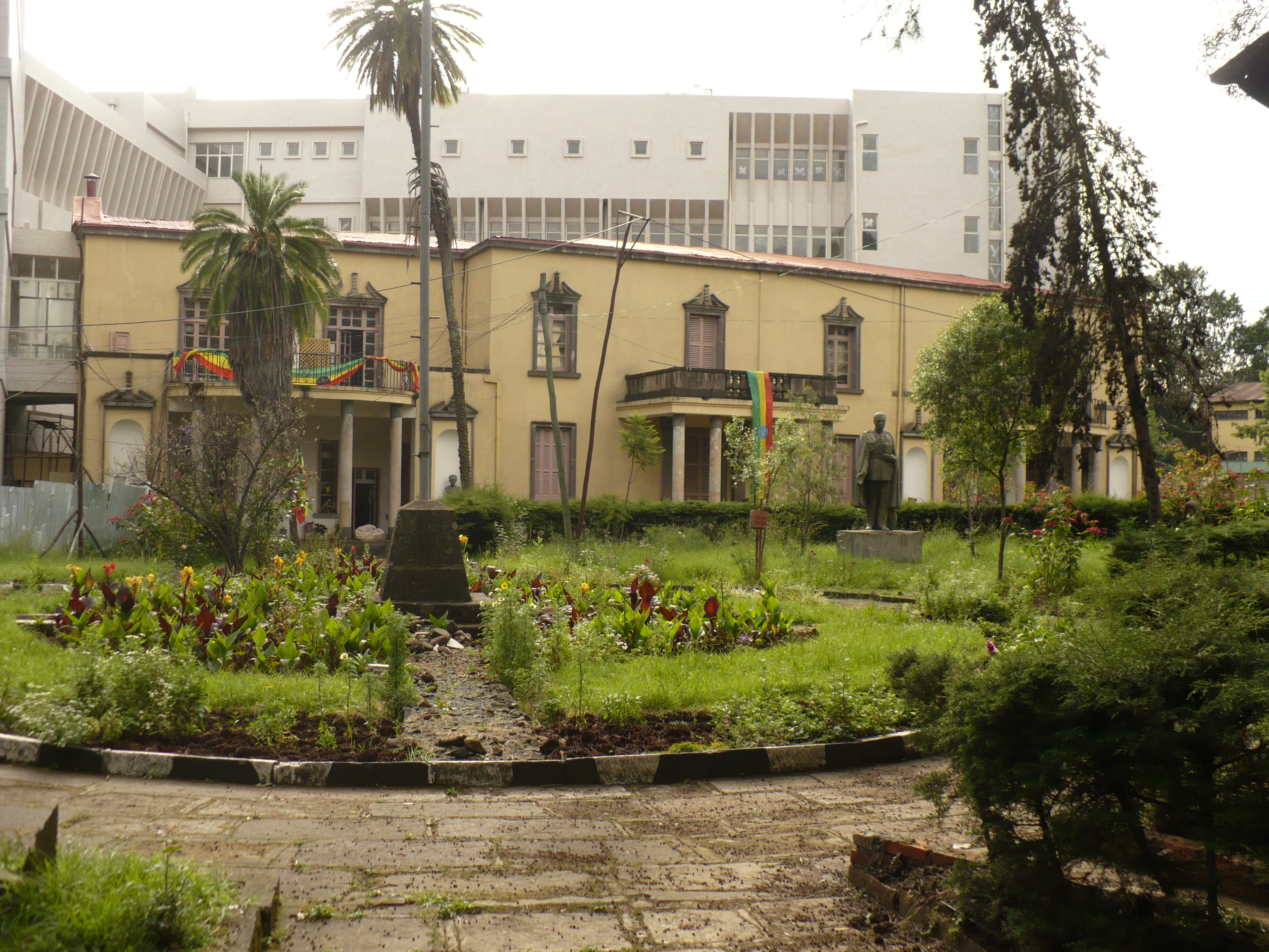 The office facility of the National Museum of Ethiopia, right after National Flag Day, 2009.